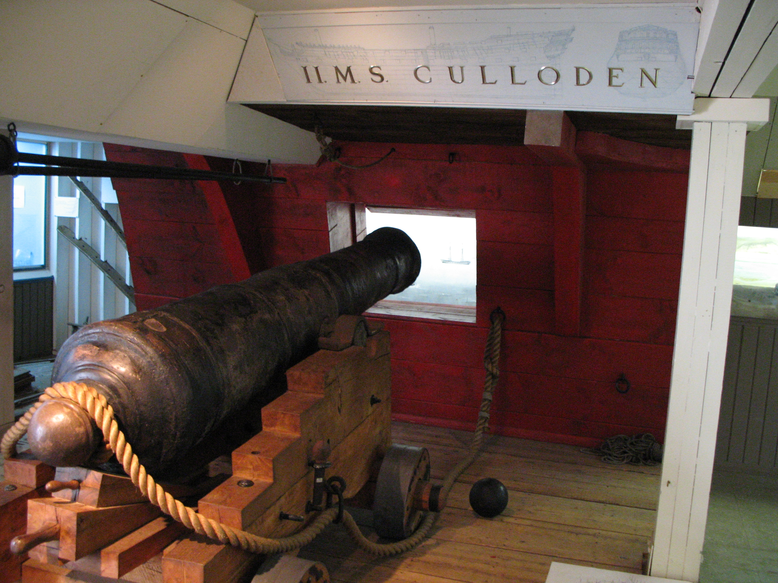 Canon of the HMS Culloden on display at the East Hampton Marine Museum in Amagansett. Photo in July 2006 by poster.